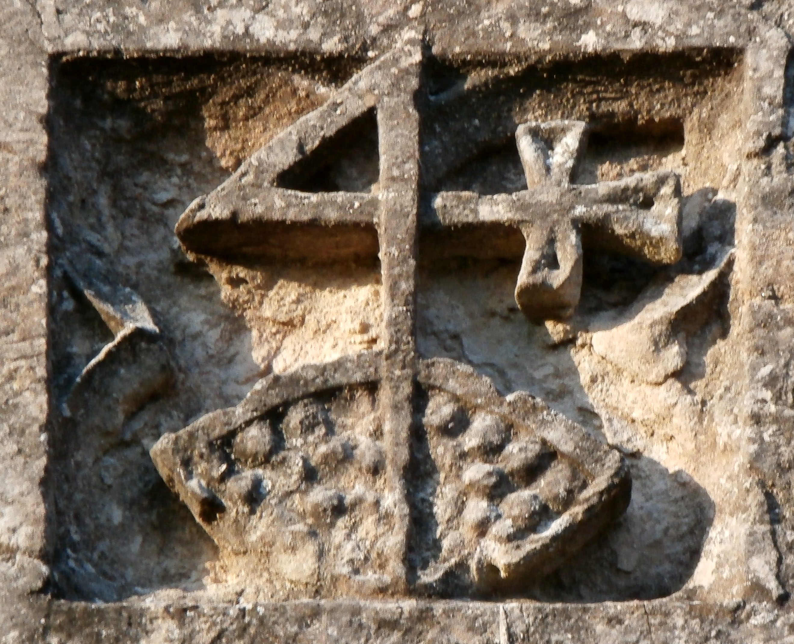 Merchant mark of John Lane (d.1529) of Cullompton, Devon, stone sculpture on external wall of the Lane Aisle attached to St Andrew's Church, Cullompton. John Lane was a wealthy clothier who built the Lane Aisle attached to St Andrew's Church, Cullompton.It shows the the mystical "Sign of Four" which commonly features in English merchant's marks, and on the stem is shown a teasel frame used for carding wool.